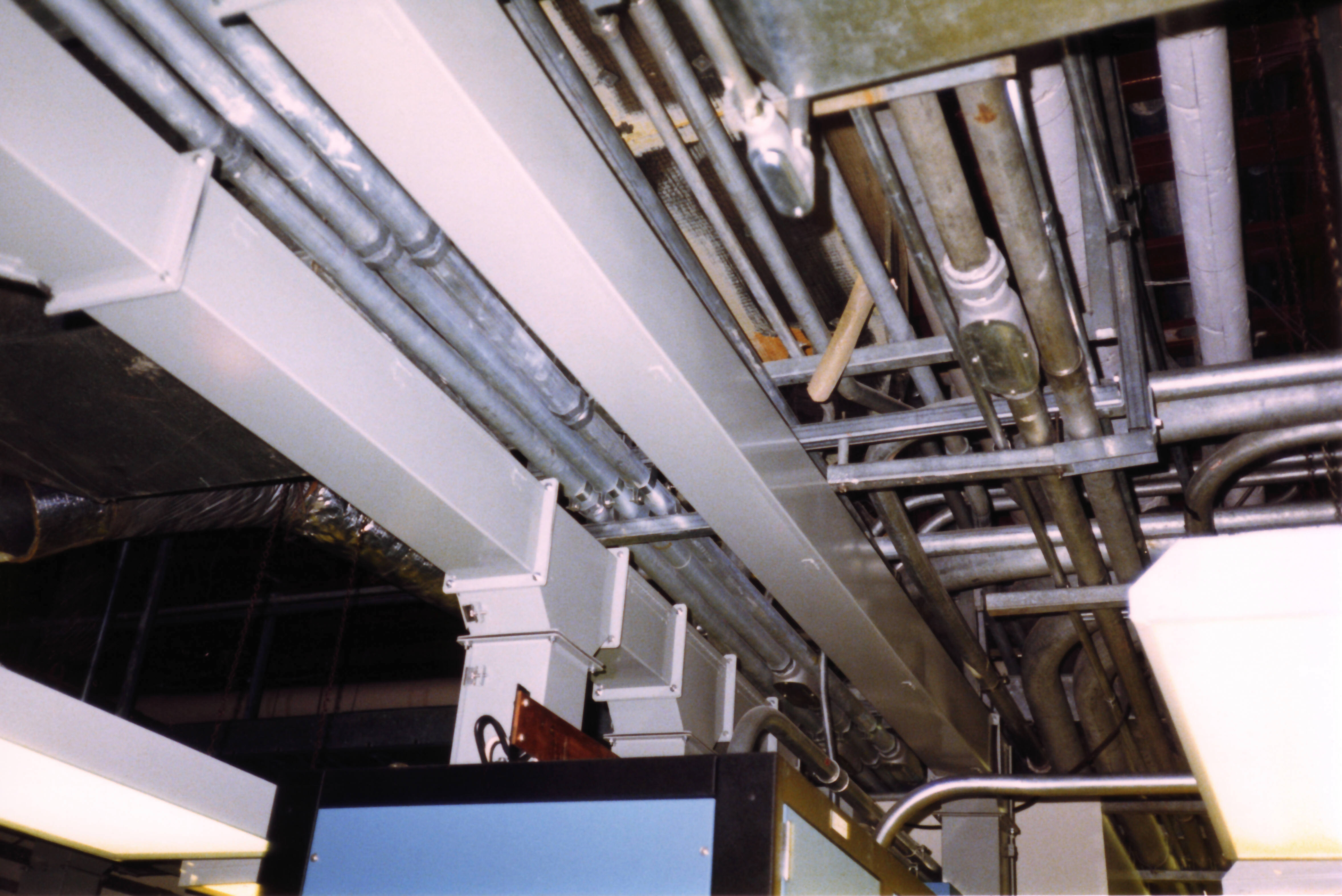 Electrical conduit and bus duct inside a building at Texaco Nanticoke refinery in Nanticoke, Ontario, 1980s.